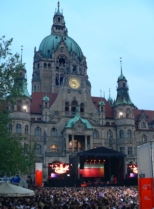 Publicviewing Hannover